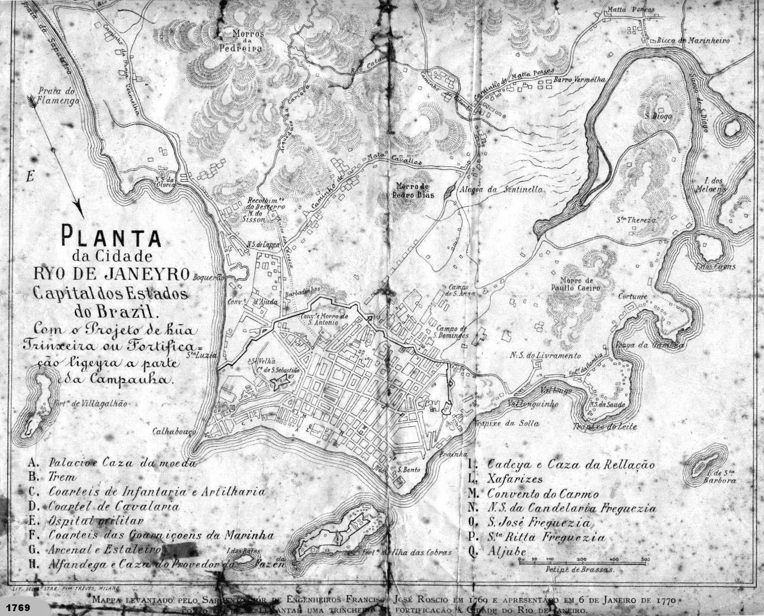 Map of Rio de Janeiro dated from 1769. The map includes the project of a fortification for the city.